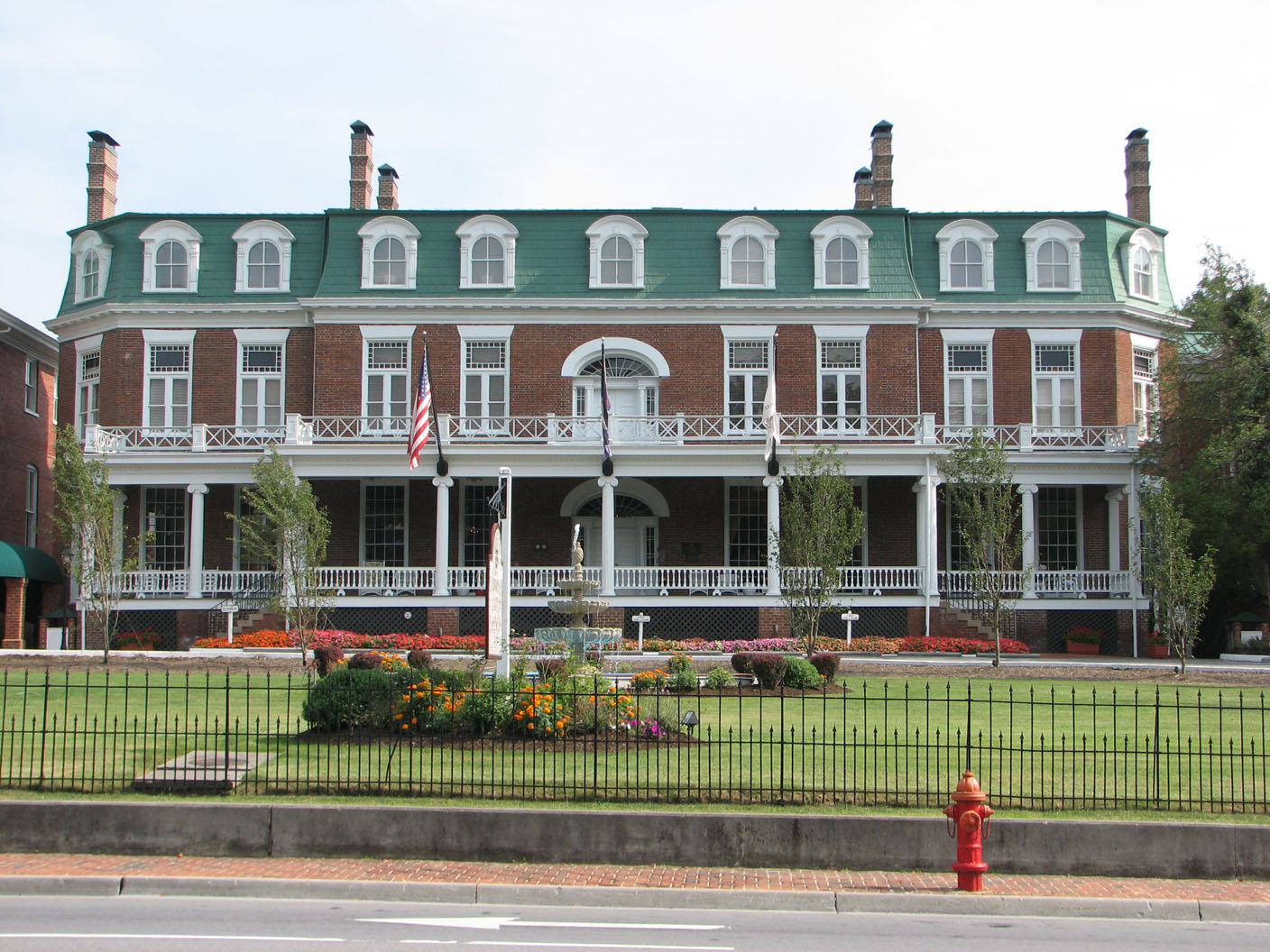 Photograph of the Martha Washington Inn in Abingdon, Virginia, taken by RebelAt on August 26th, 2006.